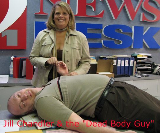 Chuck Lamb is known as "The Dead Guy" since he has portrayed many dead people on TV shows